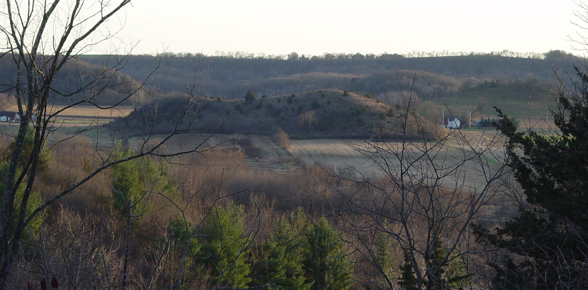 Drumlin located near village of Cross Plains, WI, USA. This drumlin is visible from Highway 14.